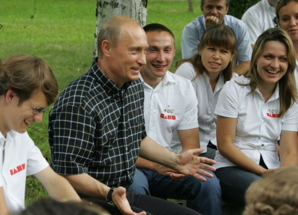 Putin meets with "Nashi" in Zavidovo